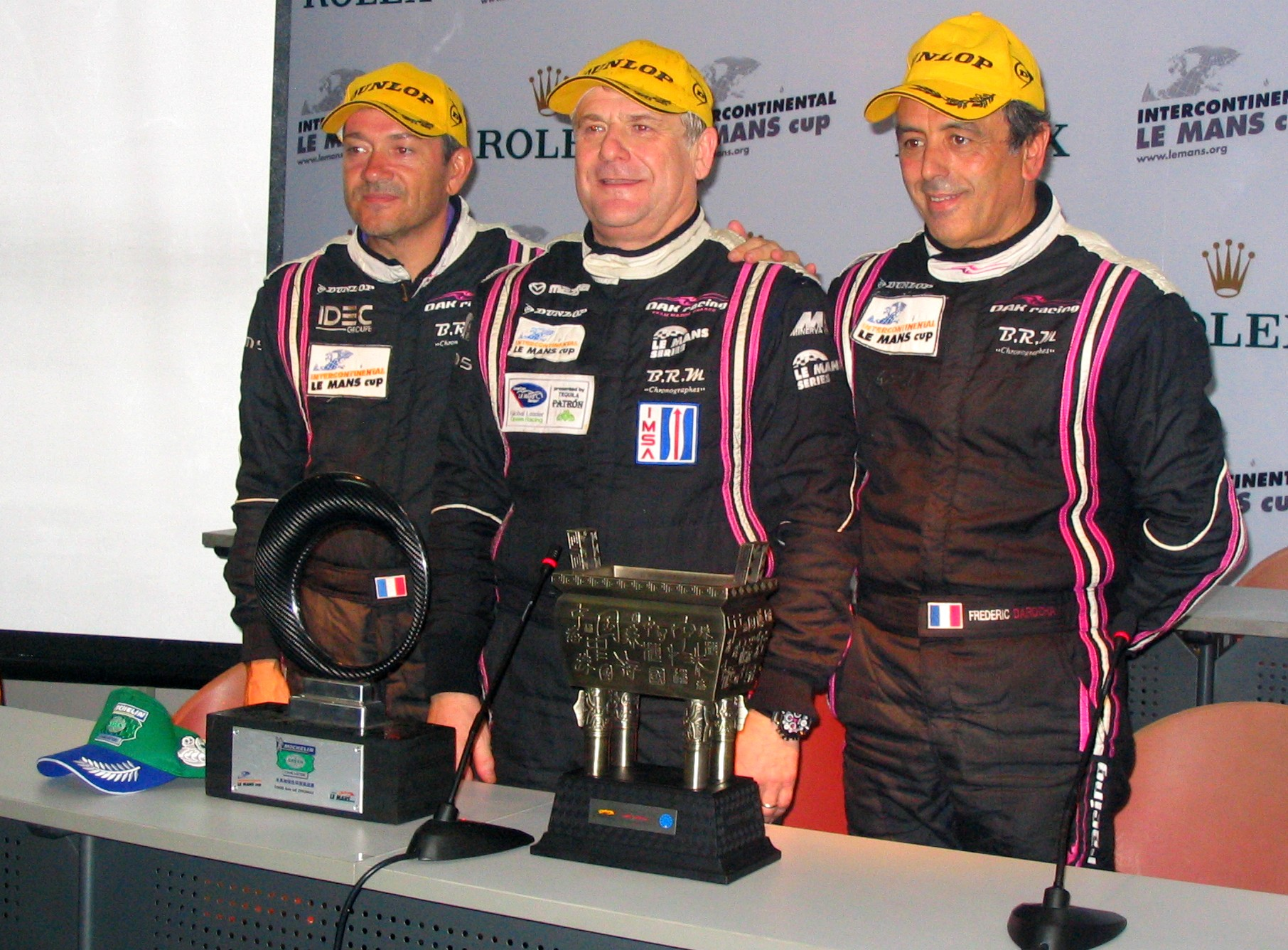 OAK racing drivers (Jacques Nicolet, Frédéric Da Rocha and Patrice Lafargue) at the post-race press conference after Intercontinental Le Mans Cup race in Zhuhai, 7 Nov 2010.